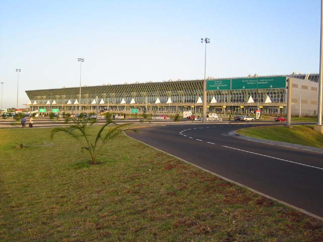 View over Addis Abeba-Bole Airport